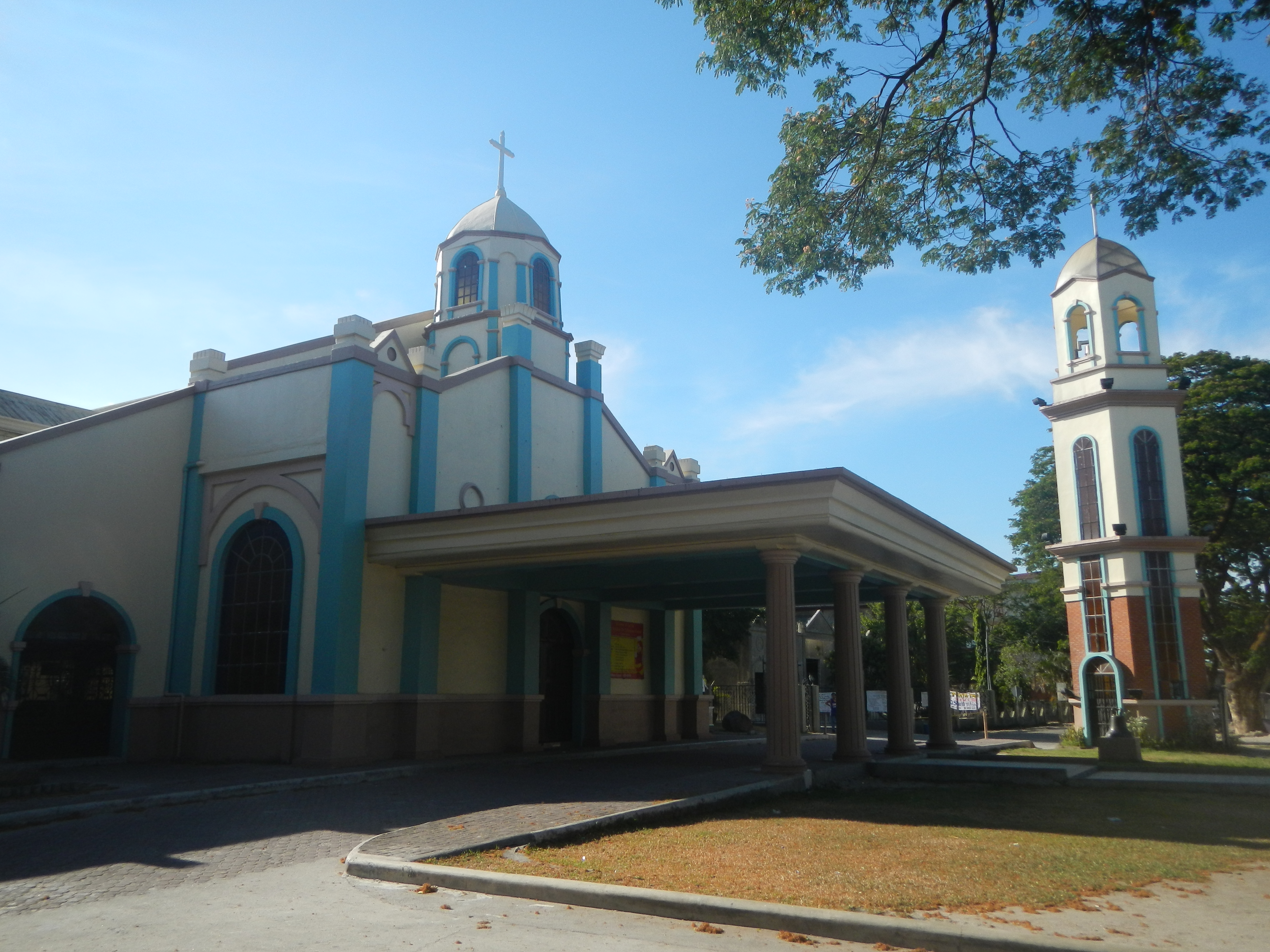 San Nicolas de Tolentino Parish Church of Capas[1]Vicariate of San Nicolas de Tolentino Vicar Forane: Msgr. Francisco Tañedo San Nicolas Parish (F-1976) Capas 2315 Tarlac, Philippines Titular: San Nicolas de Tolentino, September 10 Parish Priest: Msgr. Francisco Tañedo Parochial Vicar: Father Ferdinand Villanueva[2][3]Roman Catholic Diocese of Tarlac [4] [5] [6] Capas, Tarlac[7], Capas is a first class municipality in the province of Tarlac, Philippines.